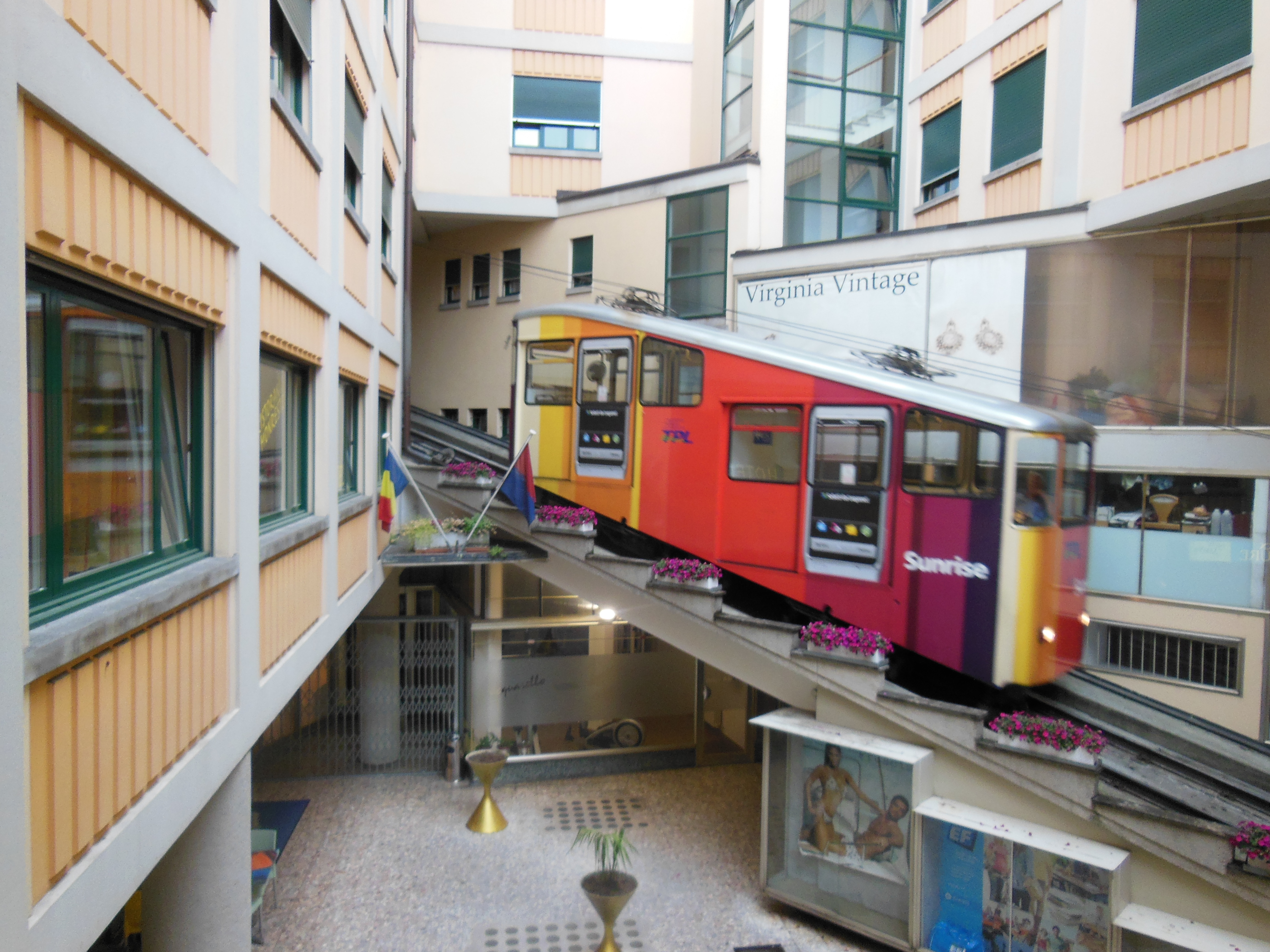 The Lugano Città–Stazione funicular passing through the courtyard of the Acquarello Hotel. Photographed from the window of one of the bedrooms of said hotel. For more information, see the Wikipedia article Lugano Città–Stazione funicular.